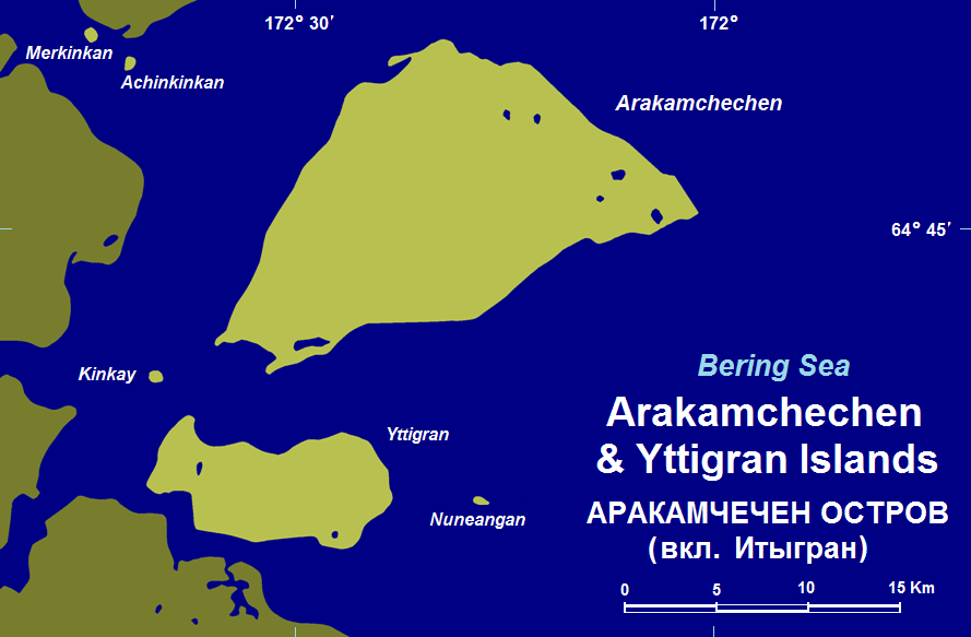 Island map